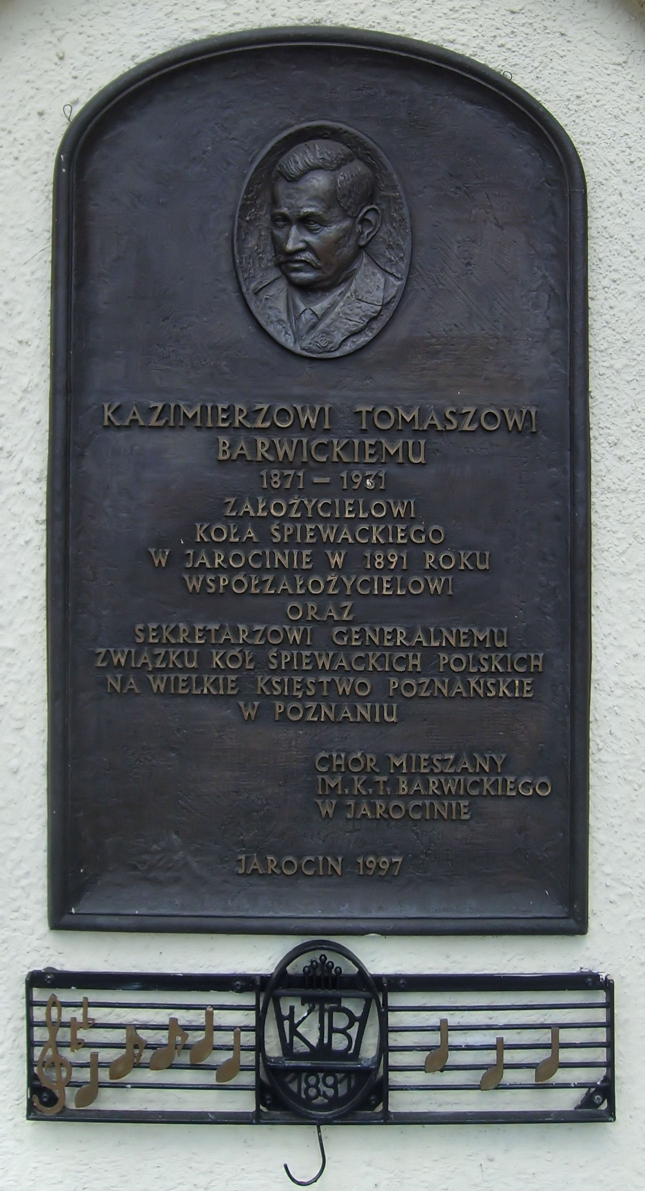 Jarocin, Poland